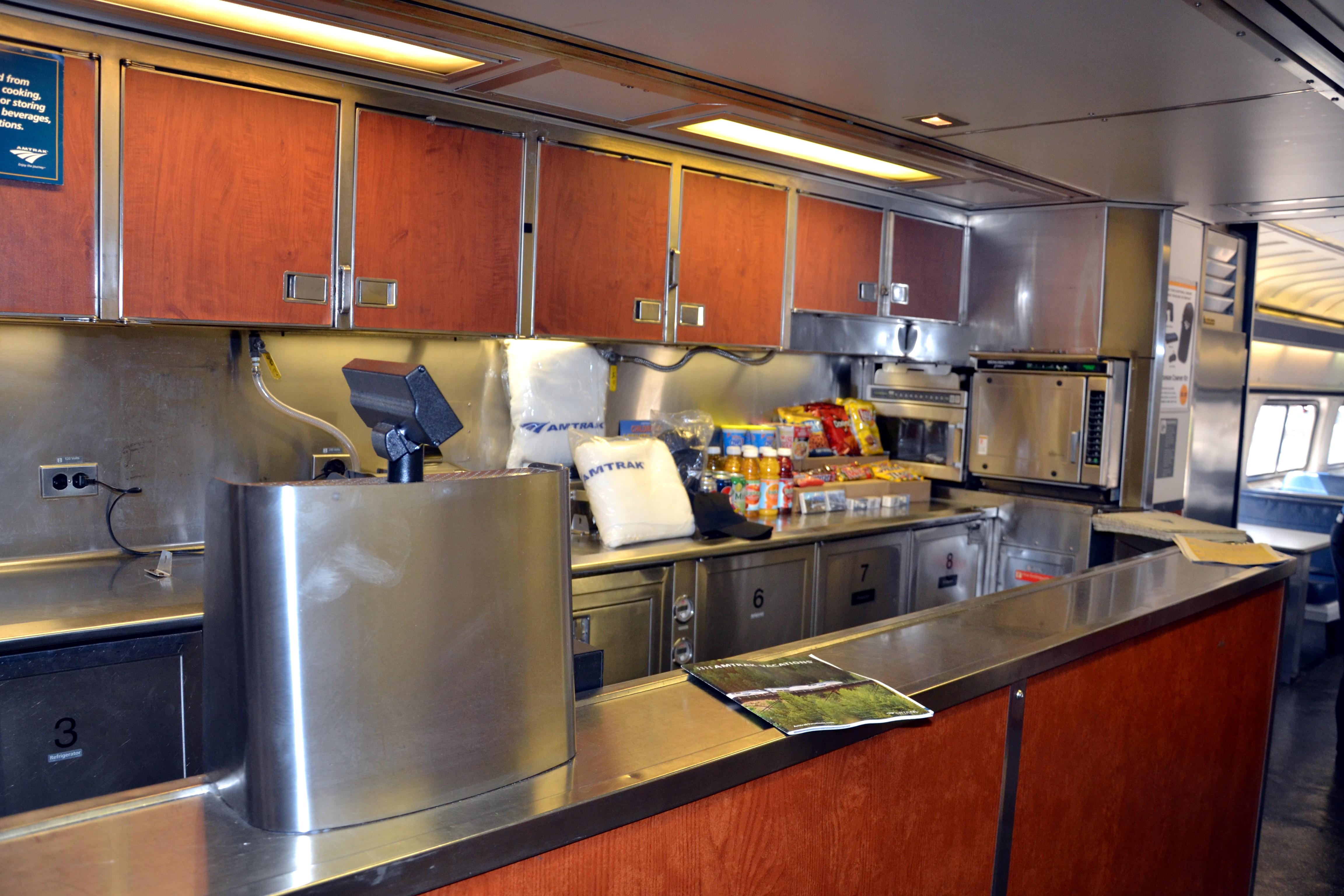 Café Car - National Train Day is held each year to introduce the general public to trains and train history. This year it also was a way to celebrate the 75th anniversary of streamline passenger service to Florida so what better place to hold it than Tampa's historic Union Station. Amtrak still uses Tampa Union Station to host the Silver Star, which carries passengers between New York City and Miami.